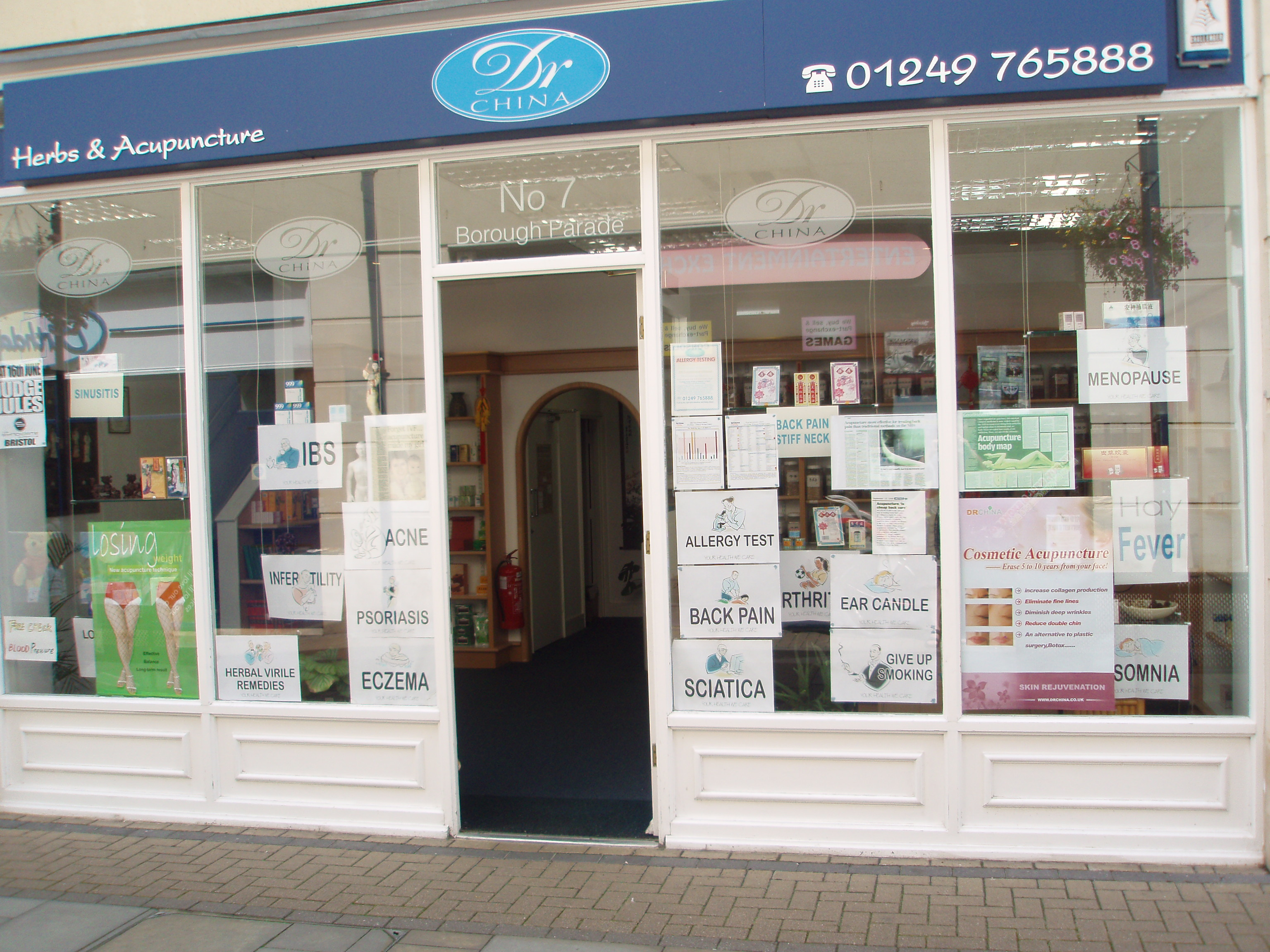 Herbs & Acupuncture, Malmesbury, 2007